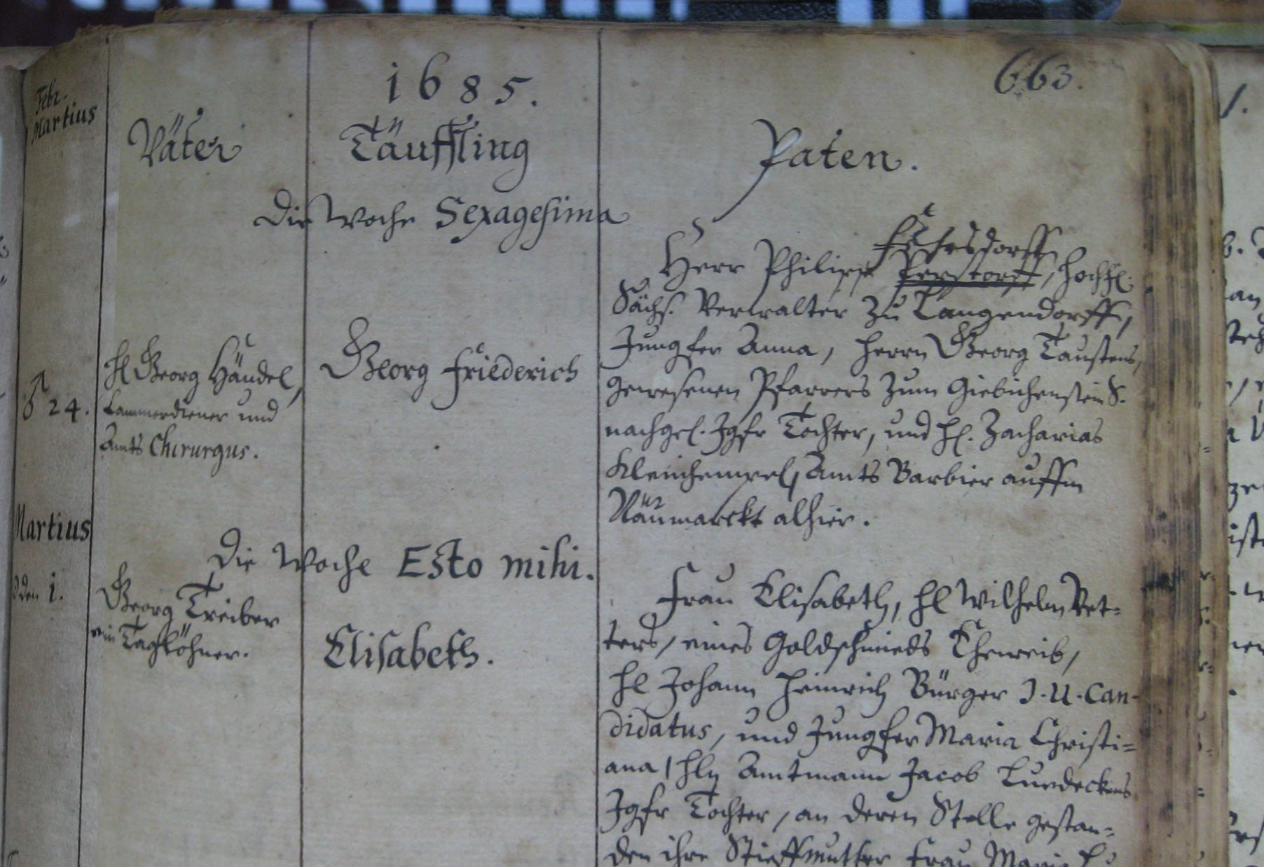 Baptismal registration George Frideric Handel on the 24th of February, 1685